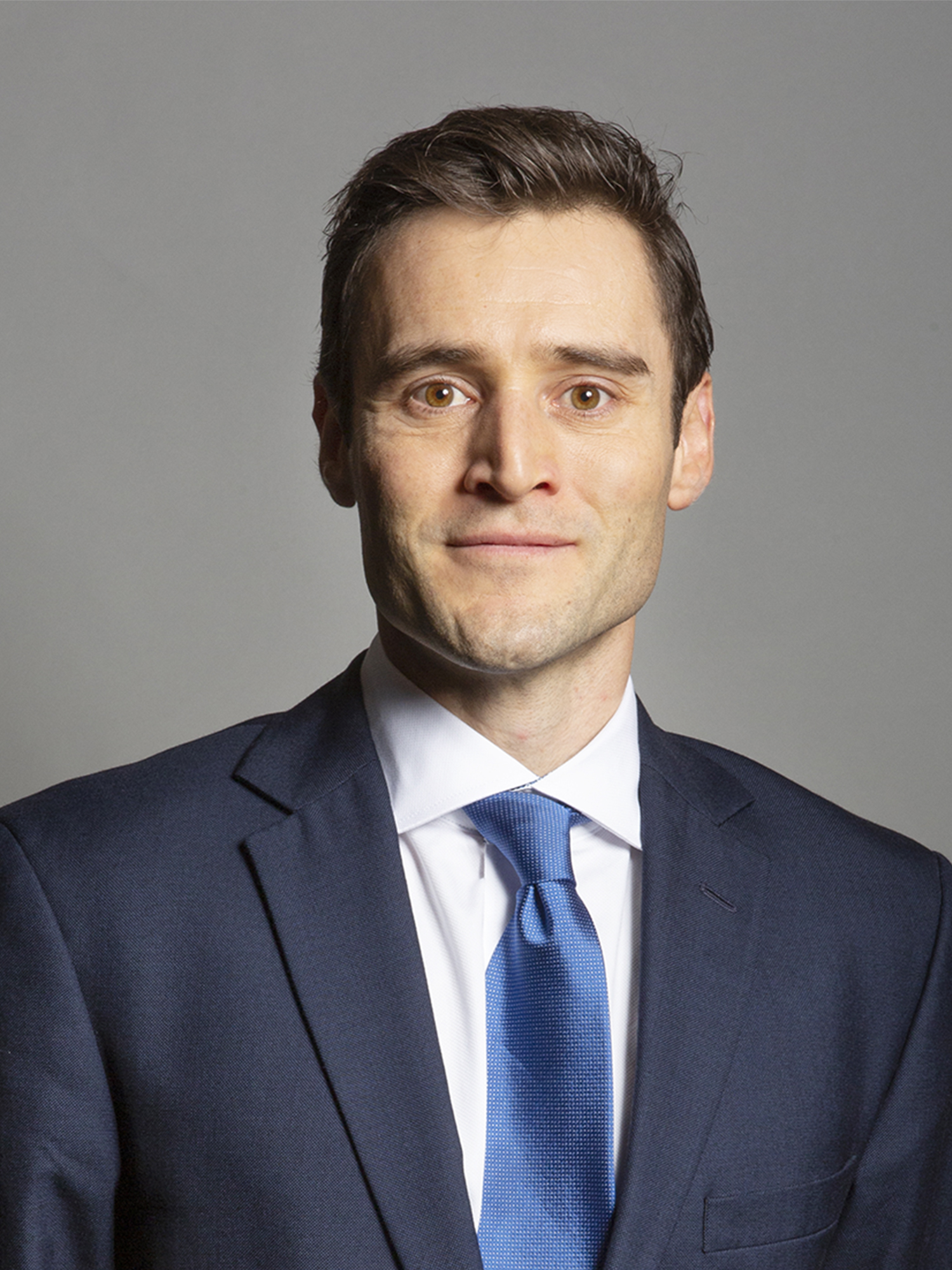 Official portrait of Dr Luke Evans MP 3×4 portrait of Dr Luke Evans